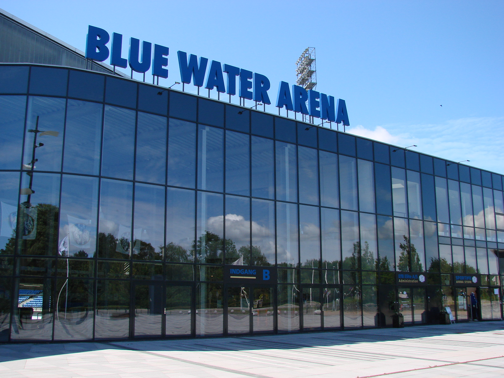 blue water arena esbjerg